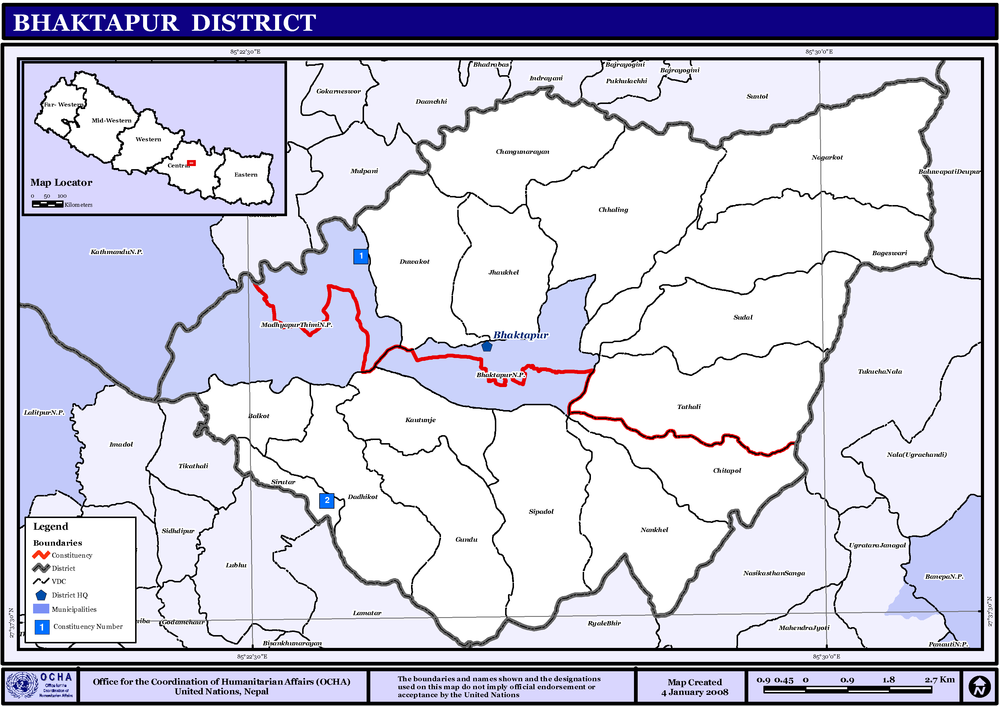 Map displaying Village Development Committees in Bhaktapur District, Nepal